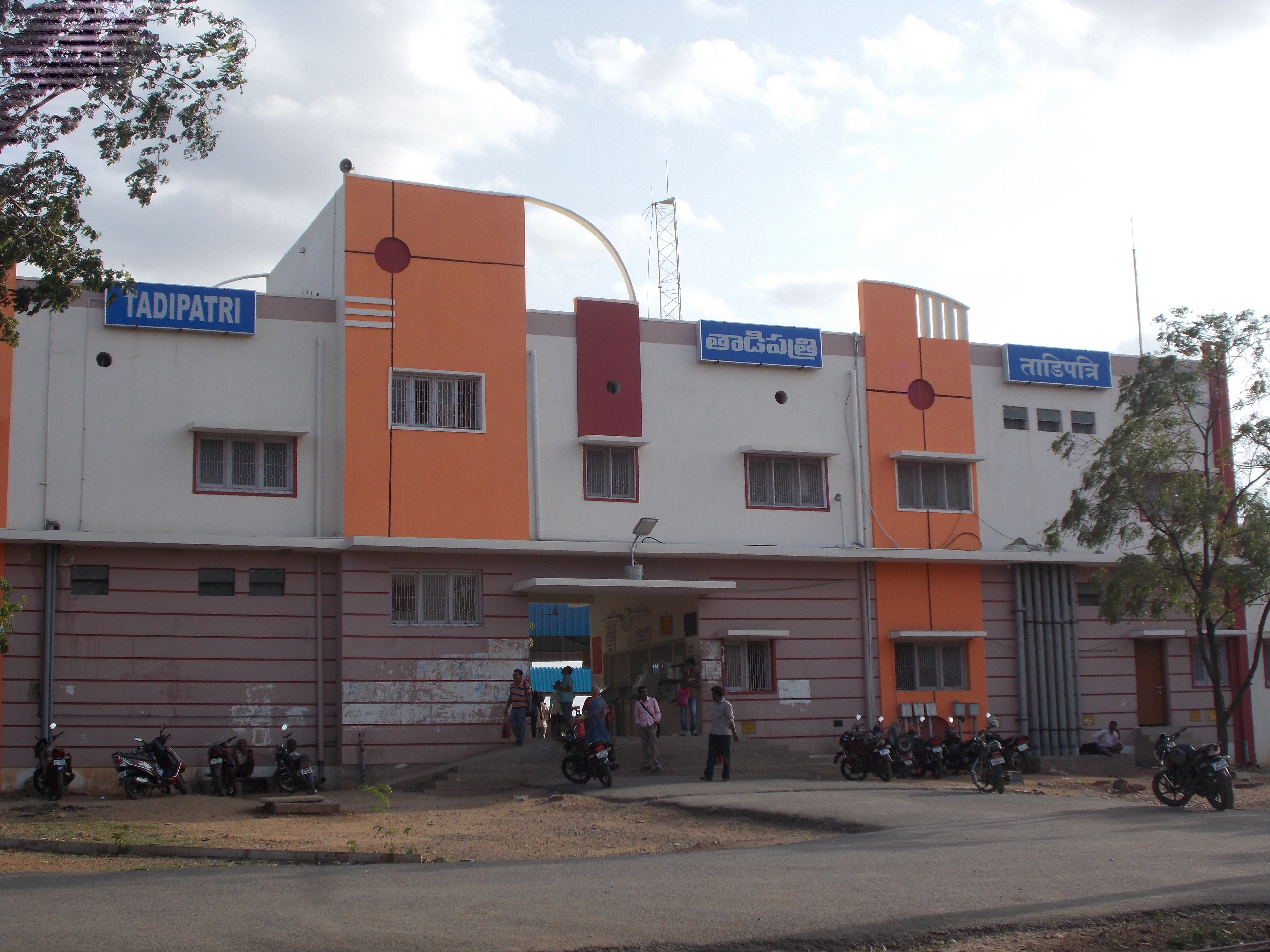 Tadipatri Railway Station is located at one end of the Town.